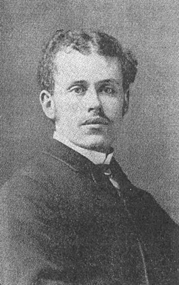 Photographic portrait of Woolf Wess as a young man.